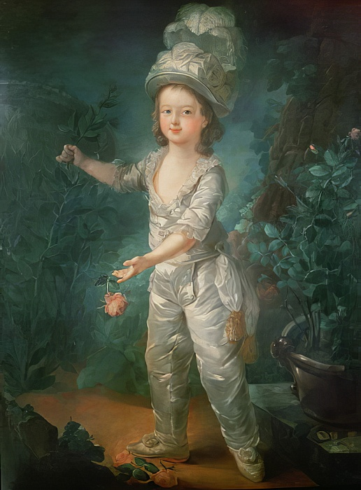 Presumed Portrait of the Dauphin later King Louis XVII of France